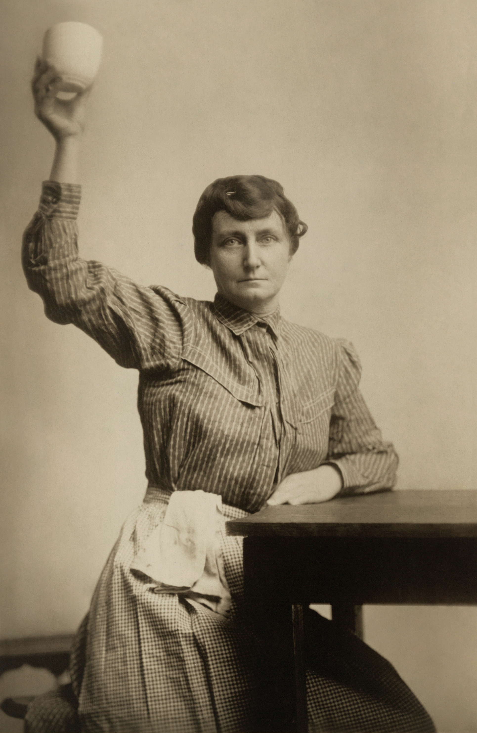 Pauline Adams, three-quarter-length portrait, sitting at a table in prison clothes with right arm raised holding a cup. Mrs. Pauline Adams of Norfolk, Virginia, was arrested when picketing the White House on Sept. 4, 1917, and sentenced to sixty days in Occoquan Workhouse. She was arrested again at a watchfire demonstration on Feb. 9, 1919, but was released on account of lack of evidence. She was one of the speakers on the "Prison Special" tour of Feb-Mar 1919. Source: Doris Stevens, Jailed for Freedom (New York: Boni and Liveright, 1920), 354. Part of the top edge of the cup has been reconstructed; see upload history for comparison.